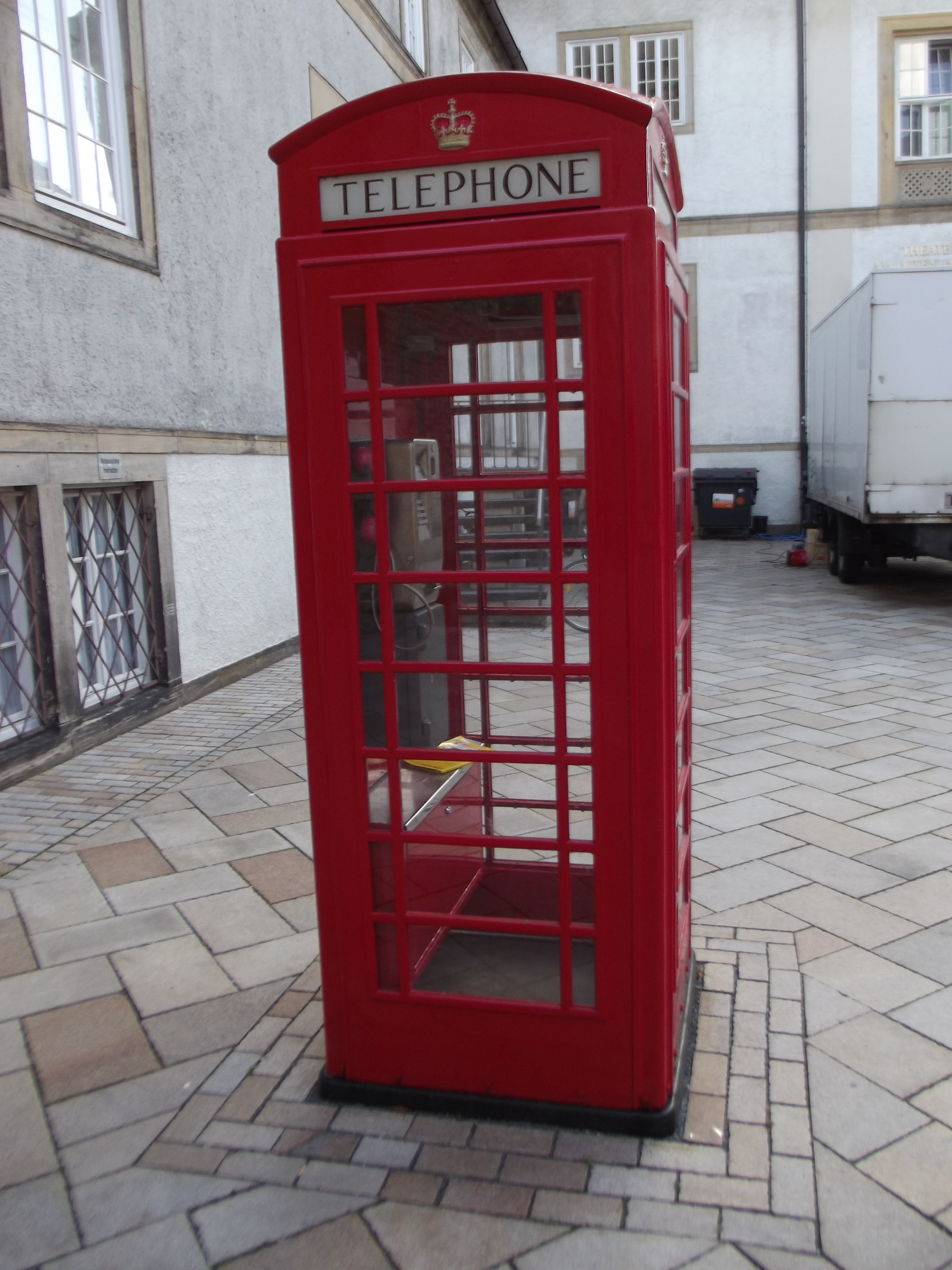 A British K6 telephone kiosk operated by Deutsche Telekom (as the receiver in "magenta" proves) in Bielefeld